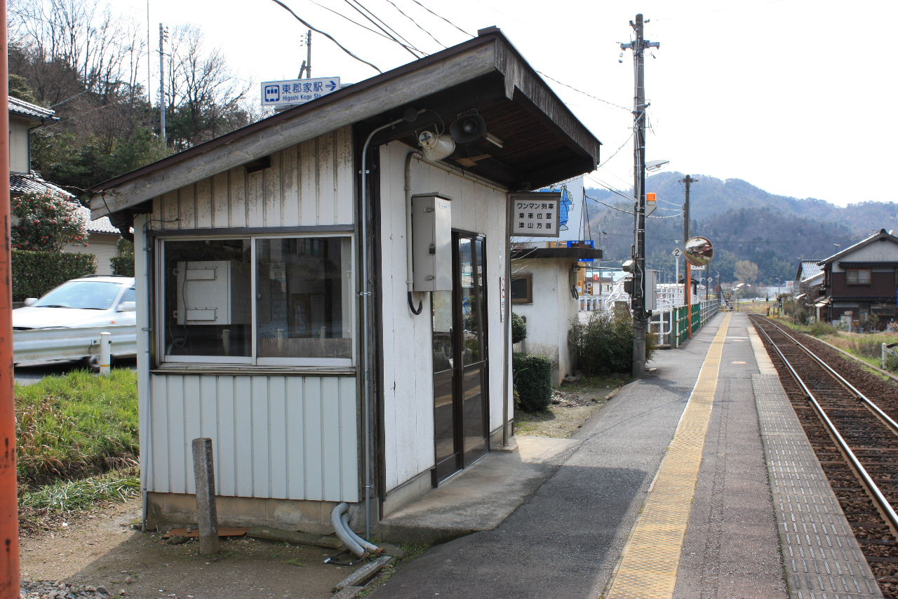 JR Inbi Line Higashi-Kooge Station platform